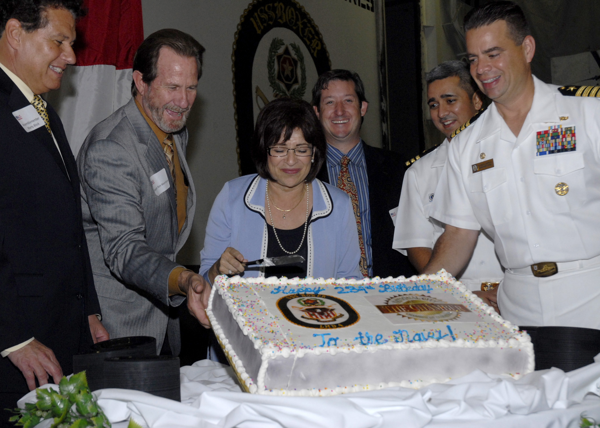 SAN DIEGO (Oct. 22, 2009) National City, Calif., Mayor Ron Morrison, center left, California State Assembly member Mary Salas and Capt. Mark Cedrun, commanding officer of the amphibious assault ship USS Boxer (LHD 4), cut a cake in the ship's hangar bay. The ship-board reception celebrates the 53rd annual National City Salute to the Navy and is sponsored by the National City Chamber of Commerce. (U.S. Navy photo by Mass Communication Specialist 2nd Class John J. Siller/Released)